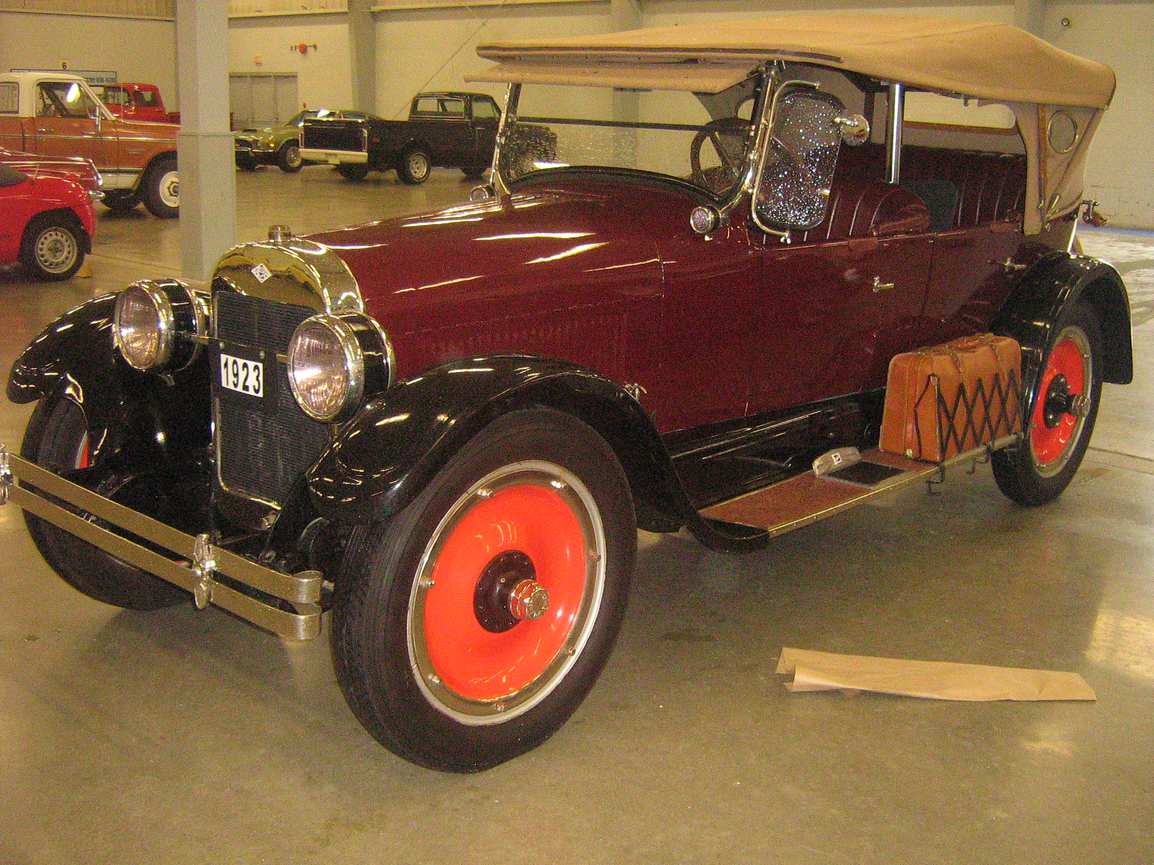 1923 McLaughlin Buick Master Six 23-55 Special 124" wheelbase Weight 3330 lbs Top speed 50-65mph [80-104km/h] 45hp Price new: $2.375.00